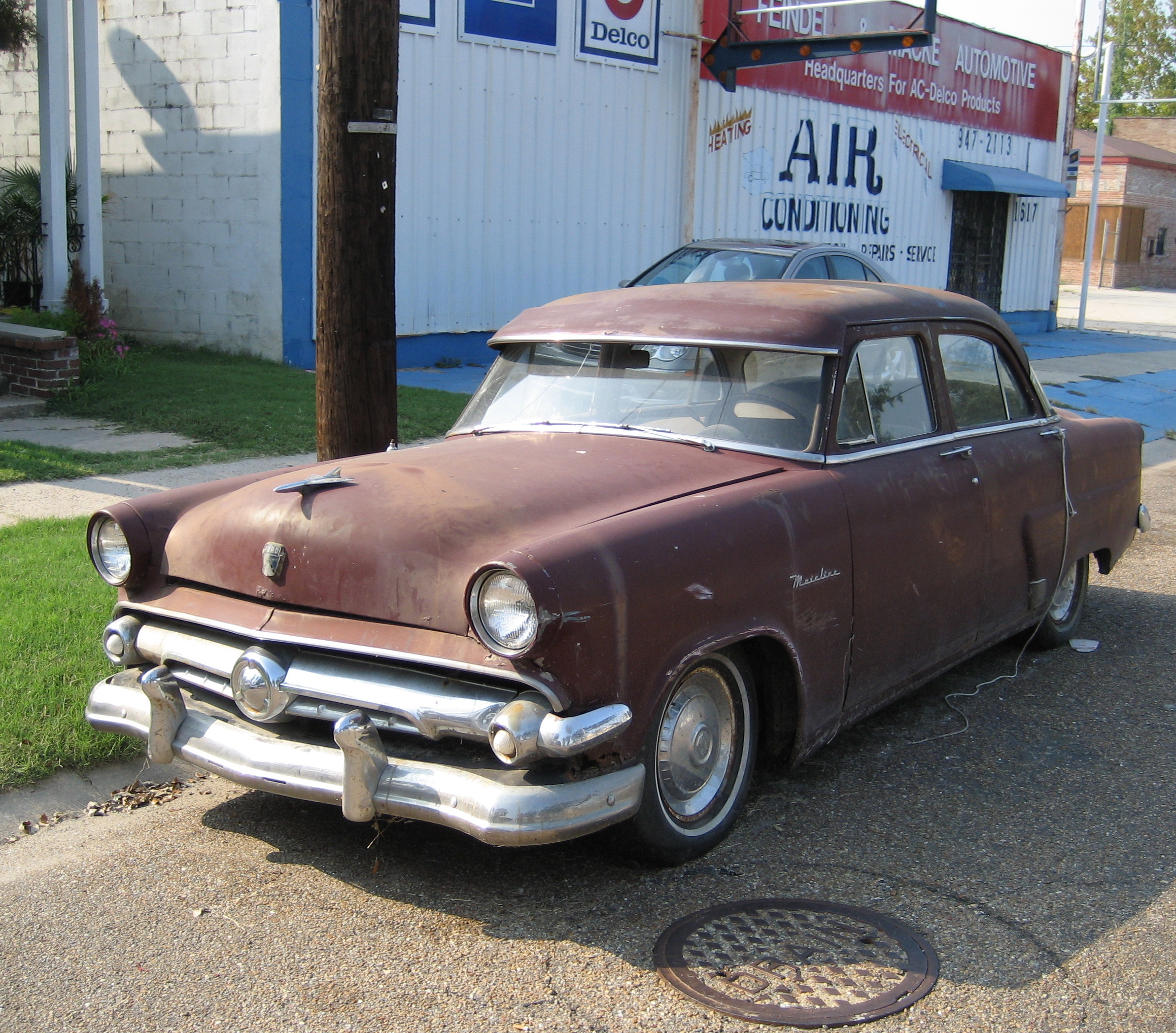 1954 Ford Mainline seen in Bayou St. John neighborhood of New Orleans.